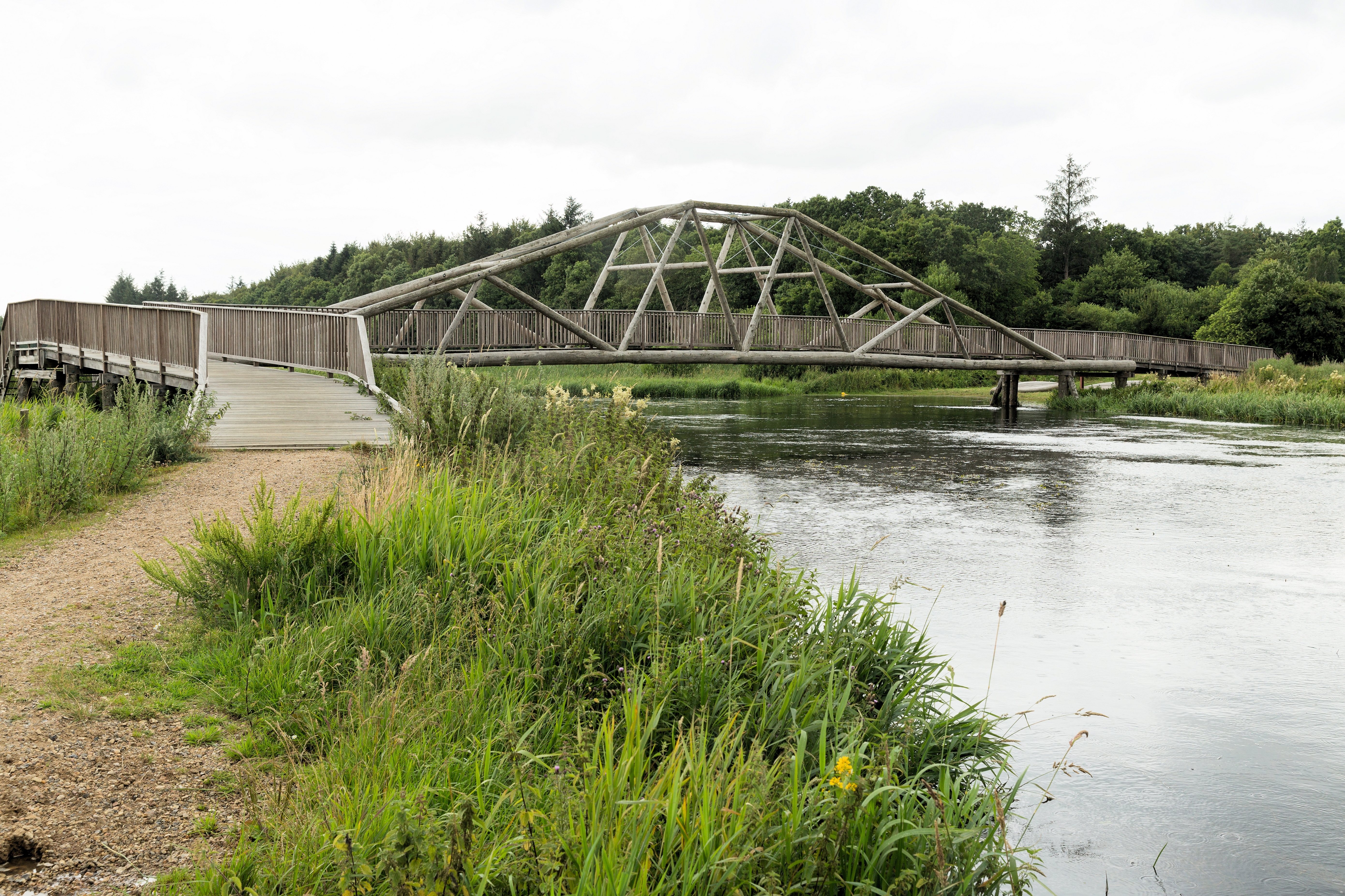 Kjællinghøl bridge seen from the south side. Kjællinghøl bridge is longest bridge in Denmark made of round logs. The bridge has a span of 35 meters. Along with the ramps is almost 90 meters long.